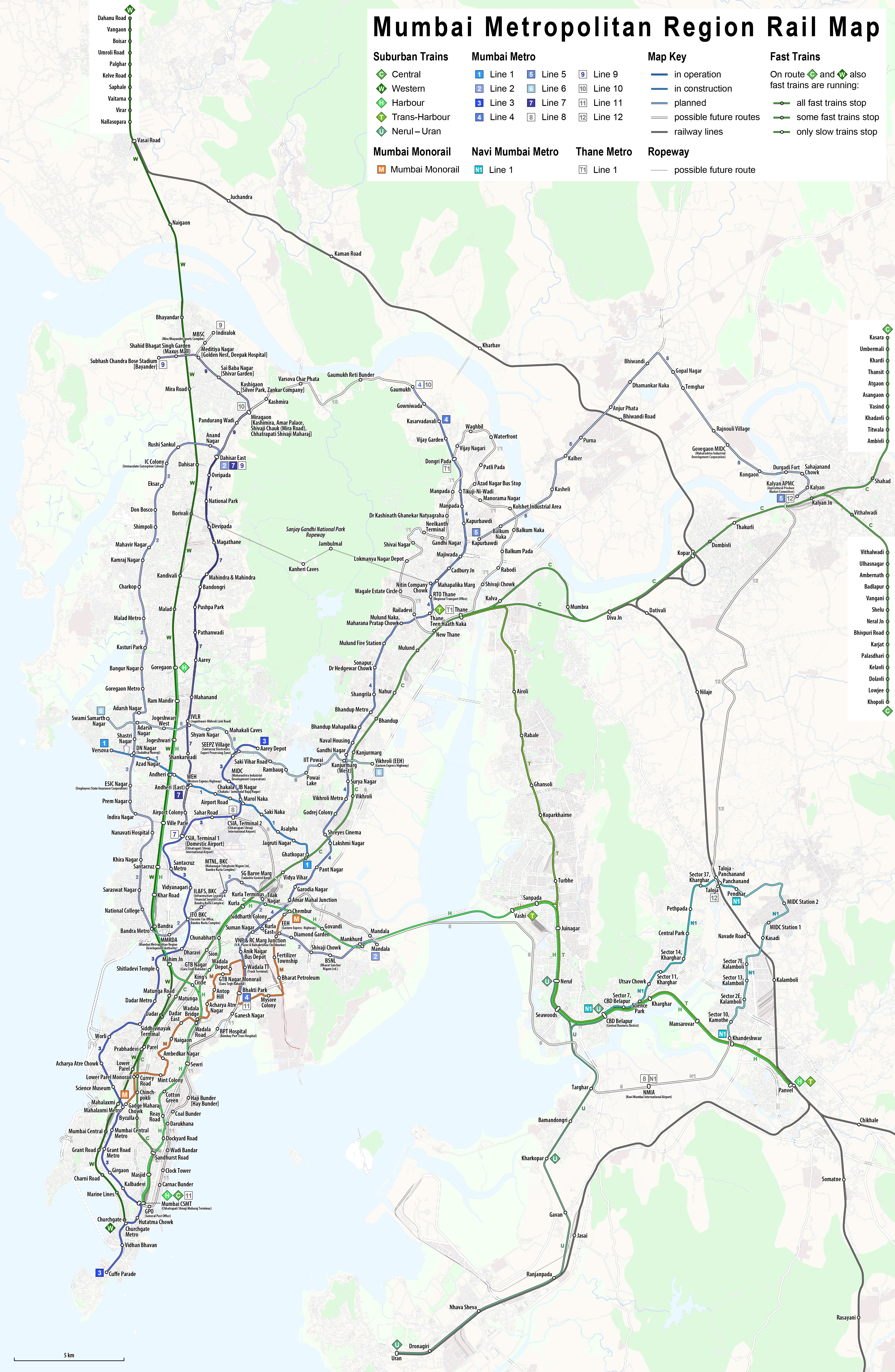 Map of all the urban, suburban, and other rail-based services in the Mumbai metropolitan region